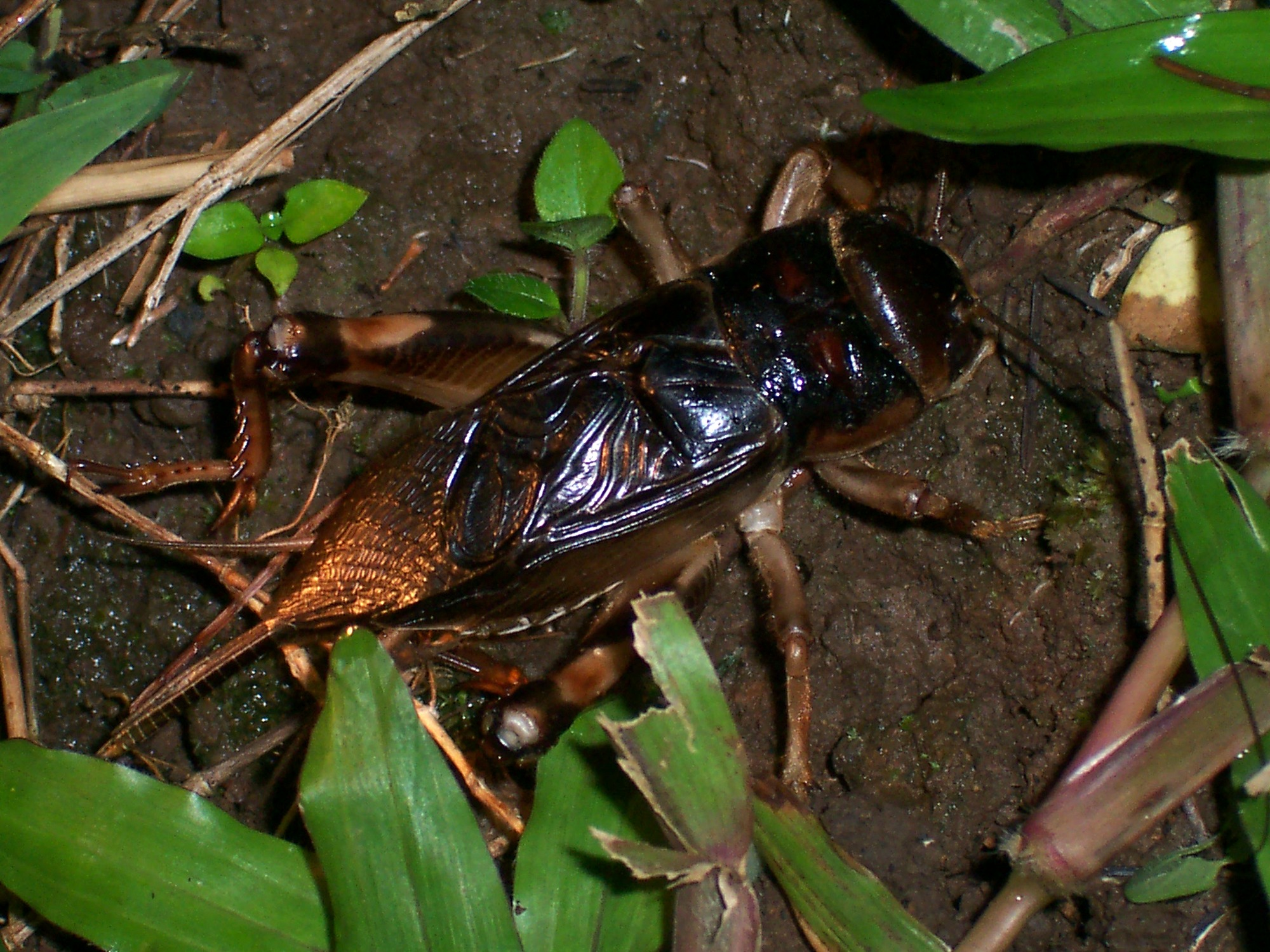 Large brown cricket (Tarbinskiellus portentosus, syn. Brachytrupes portentosus); male. From Bogor, West Java, Indonesia.